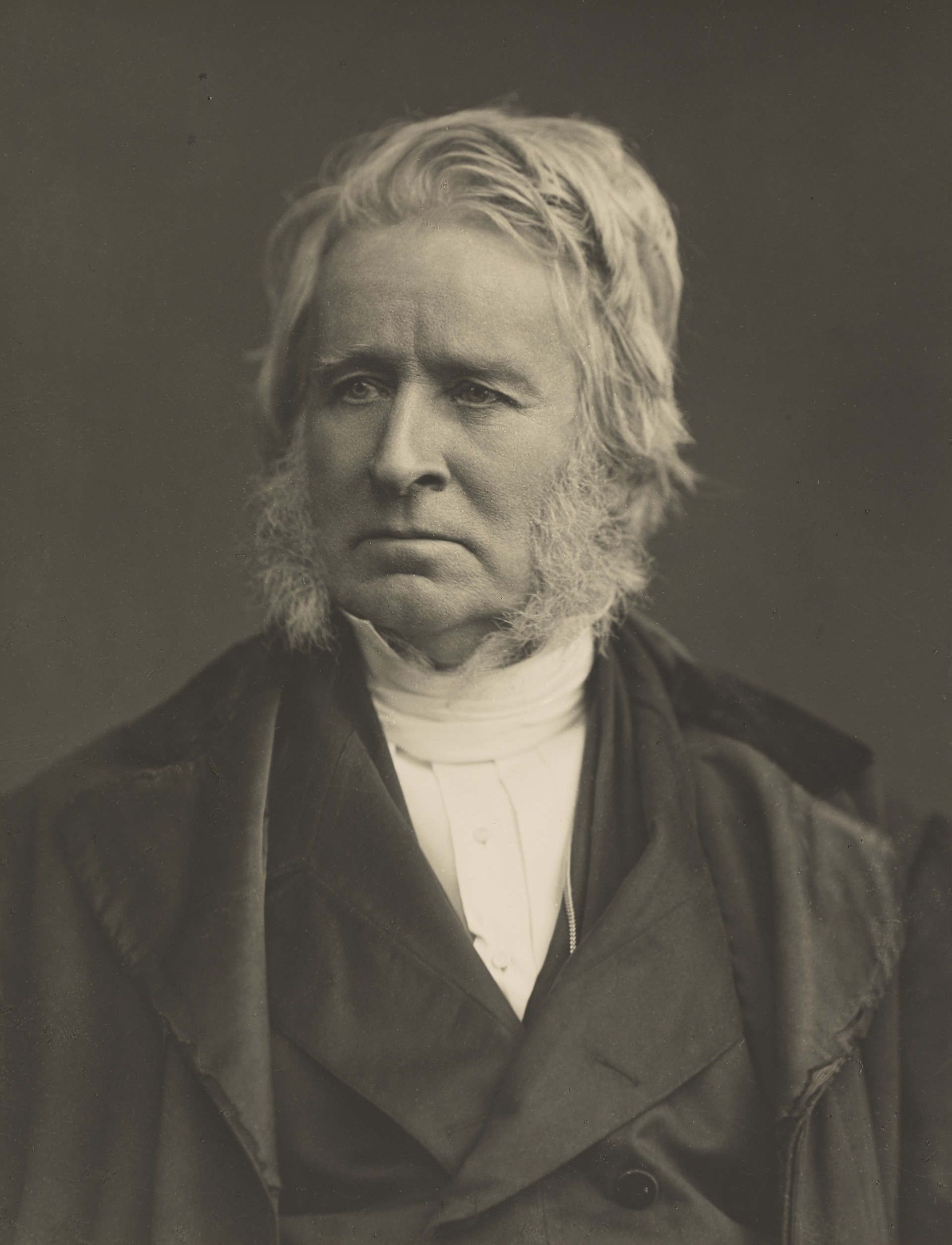 National Galleries Scotland John Moffat Rev James Begg D.D., George Square